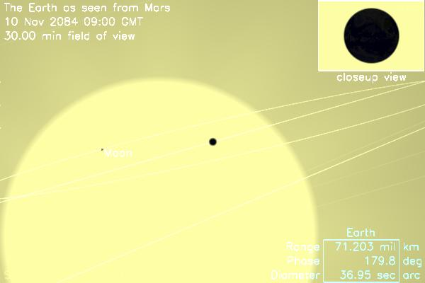 Simulated view of the Earth transiting the Sun, as seen from Mars on November 10 2084.